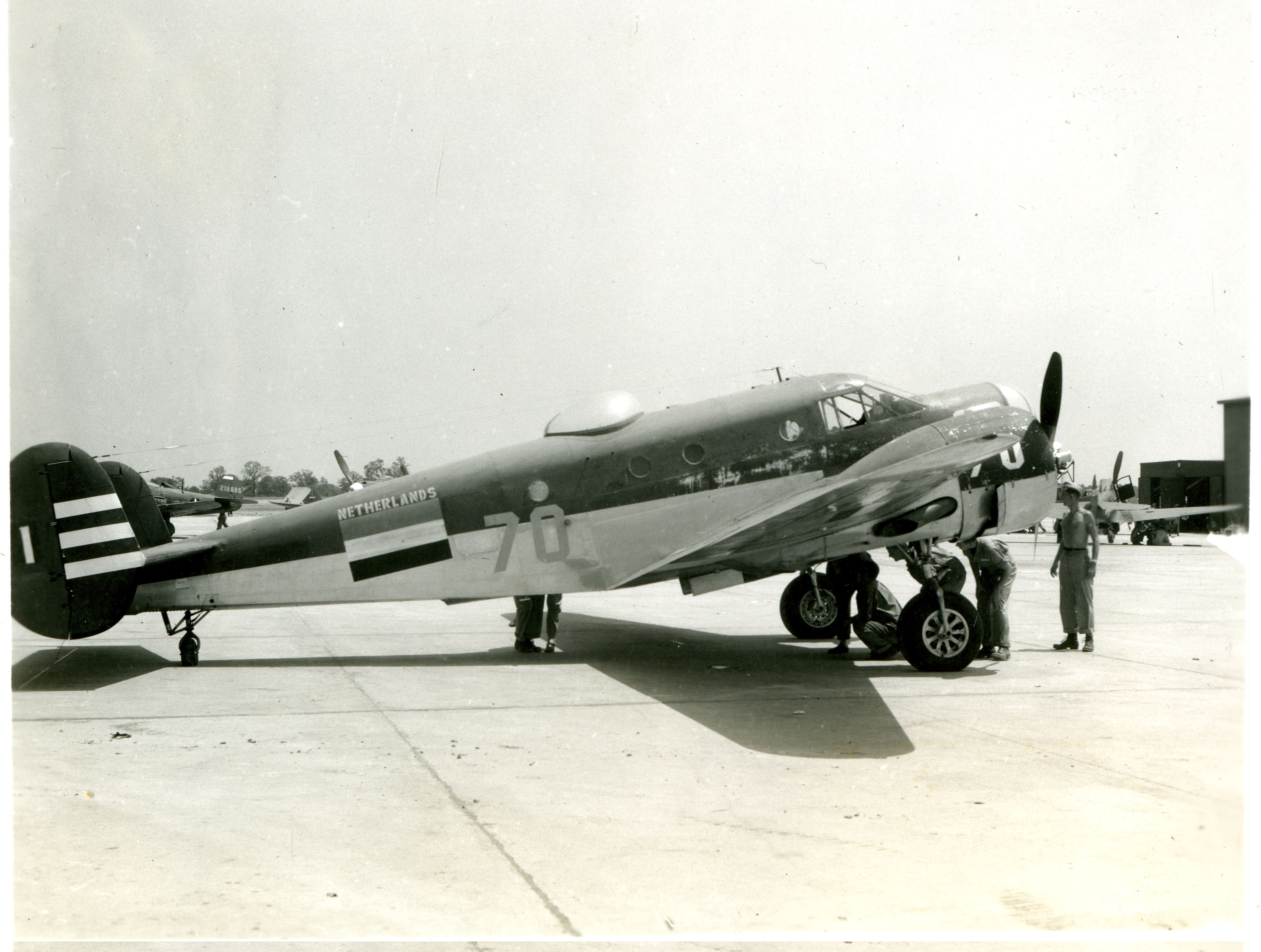 Dutch Air Force Beech AT-11 Kansan at the R.N.M.F.S in Jackson, MS